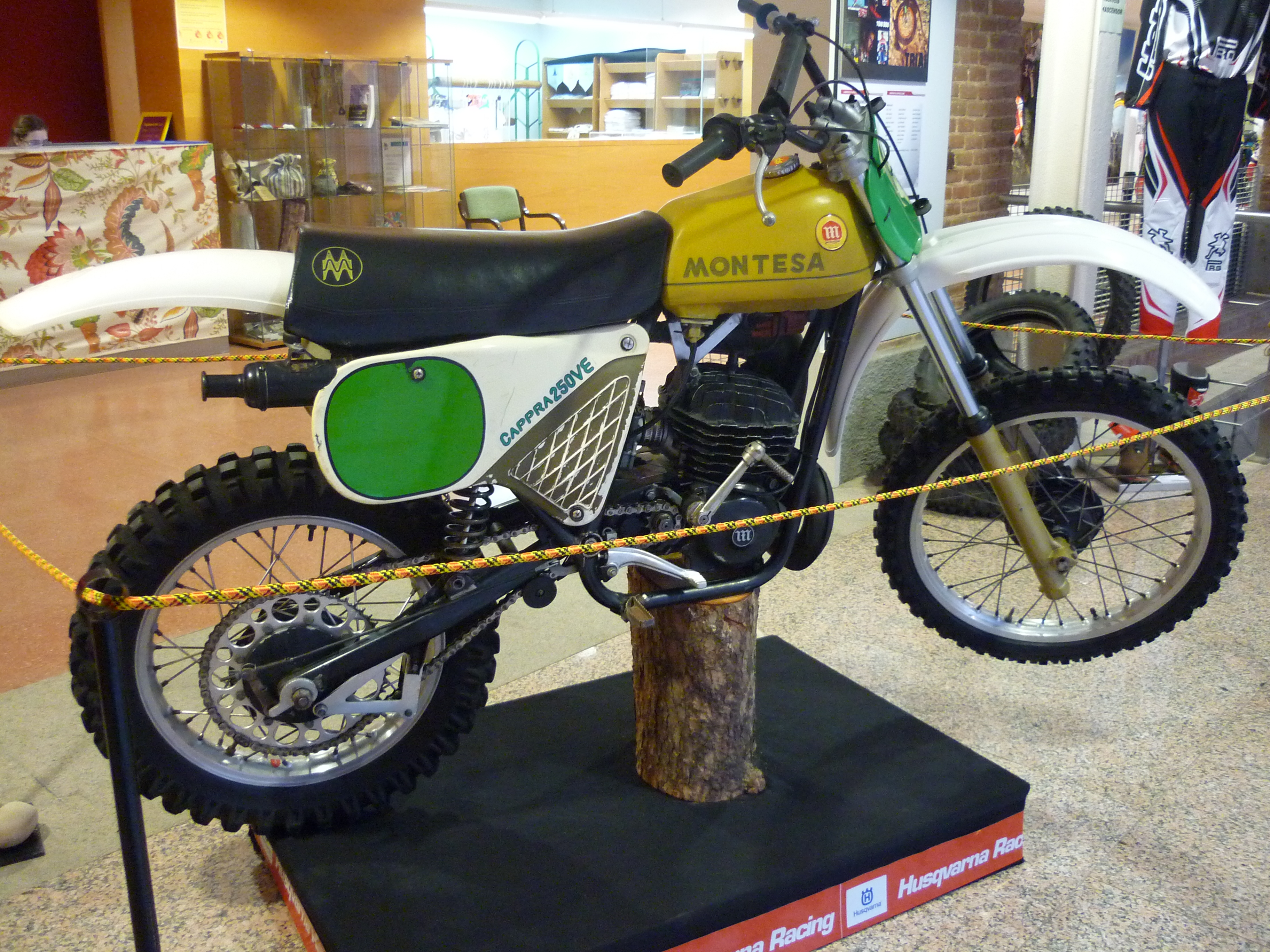 Montesa Cappra 250 VE (1979), the first motocross bike in the world with a short tank and a long seat